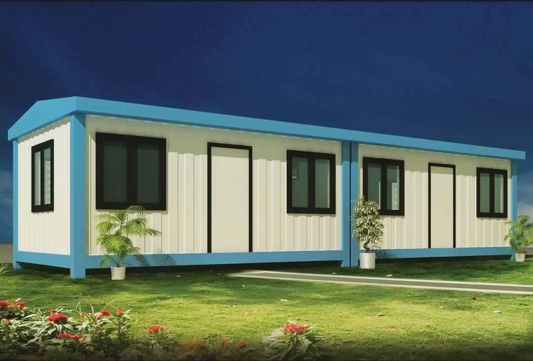 The variety of range depends upon the desire of the clients such as Site office workplace, Porta cabins, Portable bathrooms, Container cabins, Accommodation cabins, Delivery box workplace, garage cabins, Bunkhouse, Container houses, Container office, Security guard, Portable cabin and other modular buildings